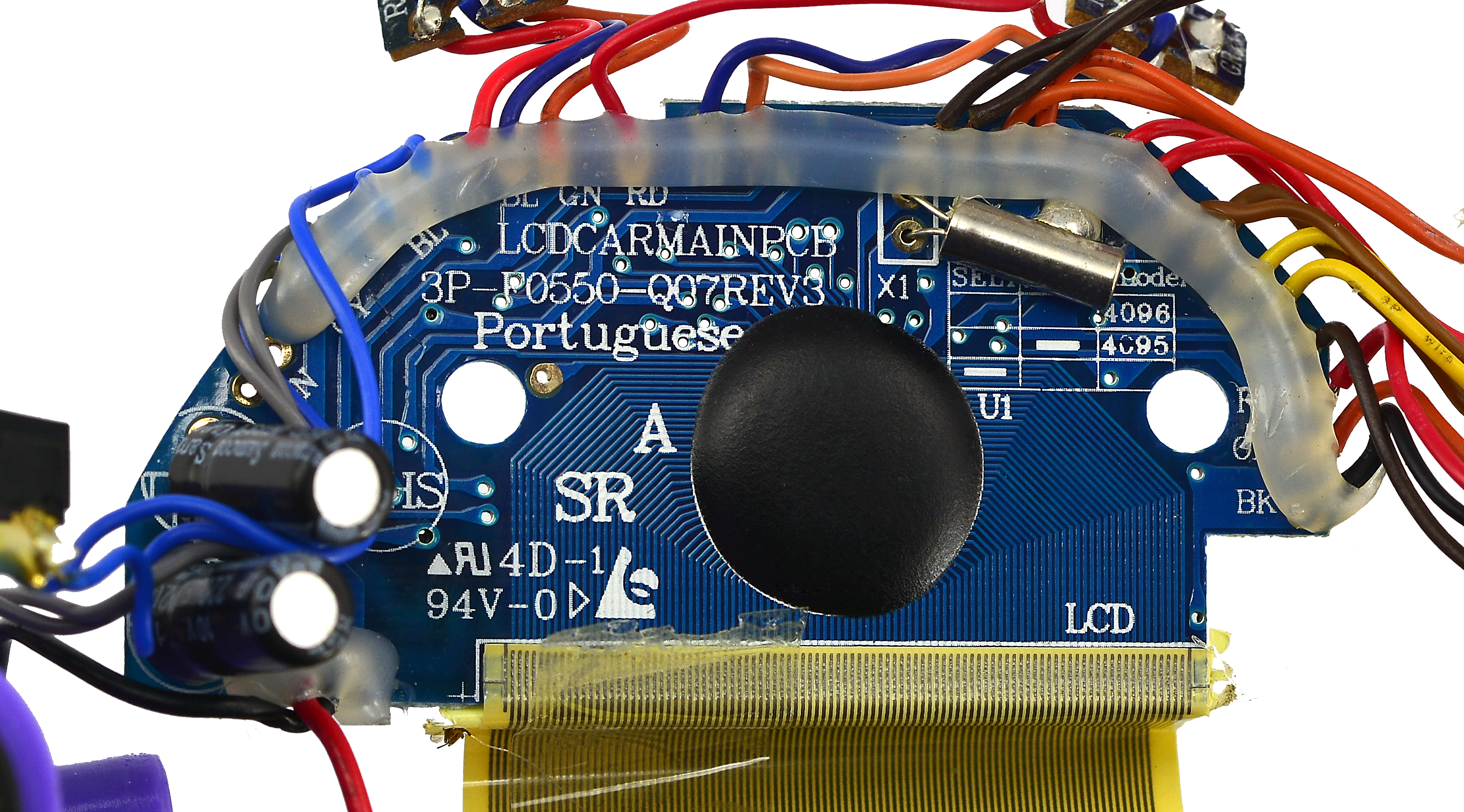 Motherboard of the Road Trippin' Car, and accessory for the Pixel Chix line of electronic toys by Mattel released in 2005. The toy line used audio with voices, which were translated according to what country it was sold on, this motherboard indicates "Portuguese" as the spoken language.